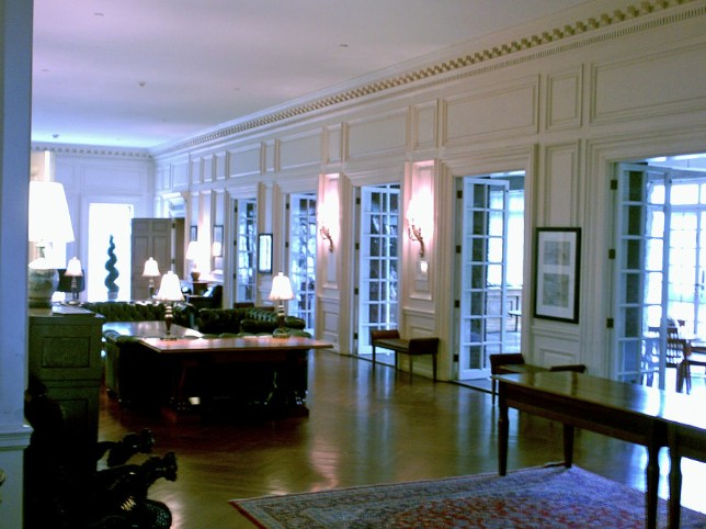 This is the main gallery (hall) of Allerton House, located in Piatt County, IL. It stretches approximately 100 feet in length, is about 20 feet wide, and has a finished ceiling height of roughly 14 feet. It is paneled in pine painted white.